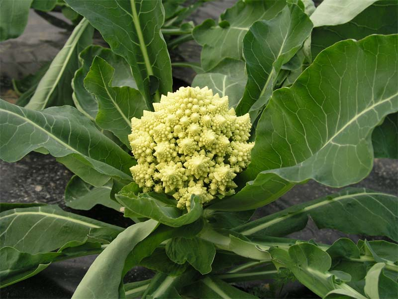 A Broccoli variety Romanesco, grown in the field